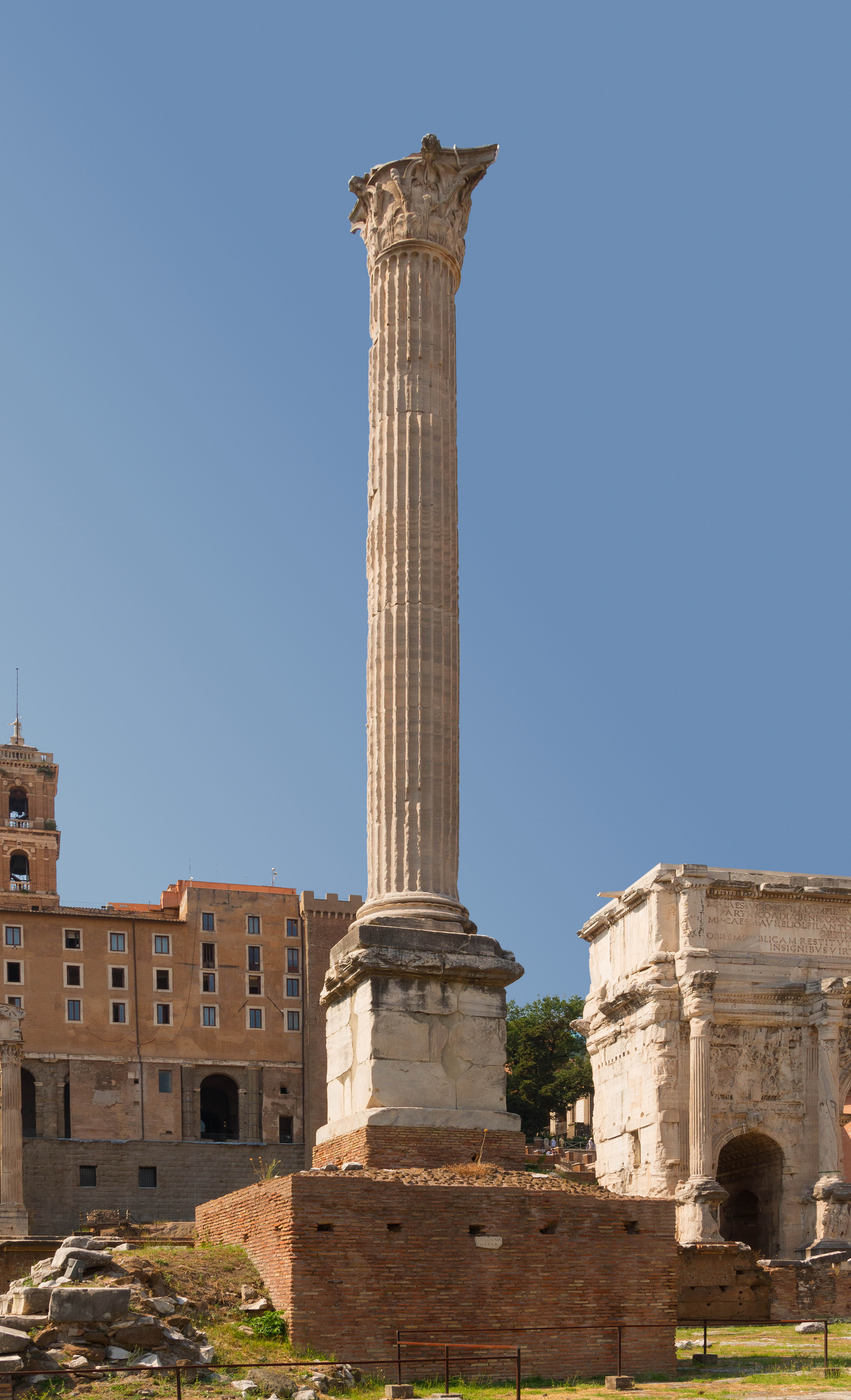 The column of Phokas, Forum Romanum, Rome, Italy.